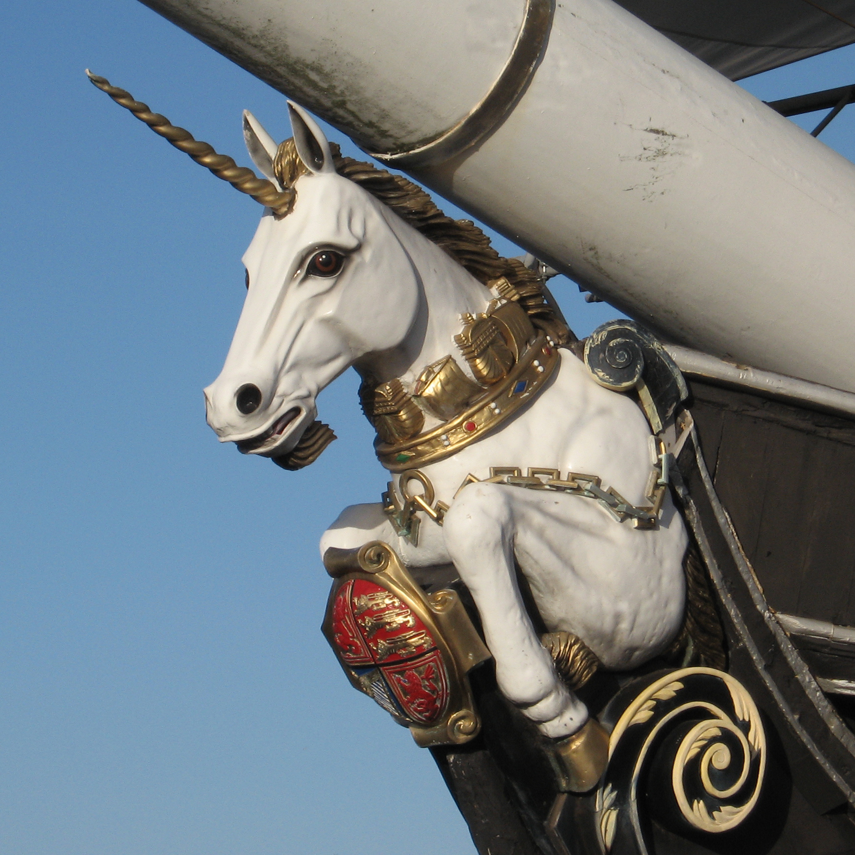 His Majesty’s Frigate Unicorn (1824) in Dundee. Close-up view of the unicorn sculpture at the head of the ship.